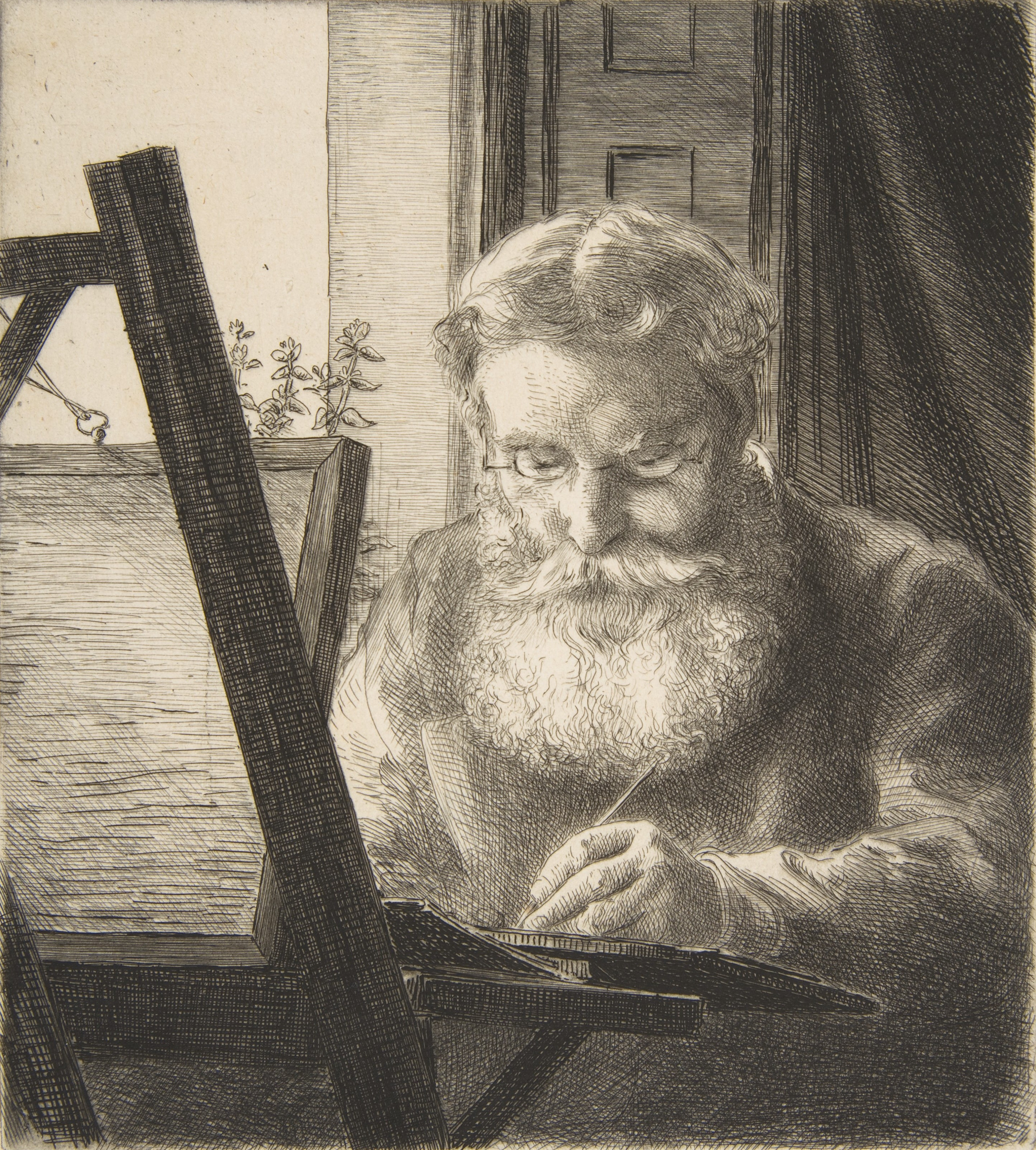 Drypoint etching of English landscape painter and etcher Edwin Edwards (1823-1879) by Félix Bracquemond (1833-1914).